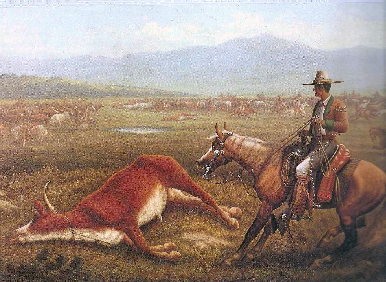 Painting of a Vaquero in action roping cattle during 1830s Spanish California.